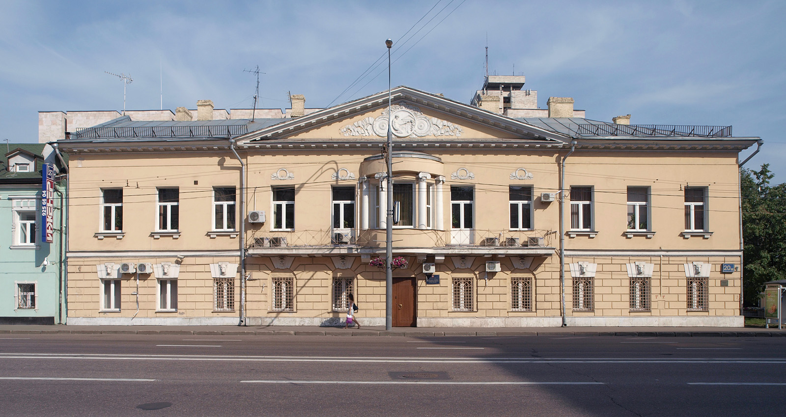 Neoclassical Aratsky House in Moscow (20, Prospect Mira) - one of the first works by Vesnin brothers, 1912-1914